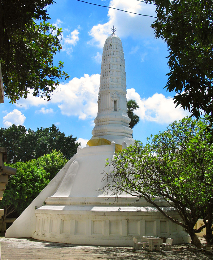 Replica of Phra Pathom Chedi, Nakhon Pathom province, Thailand.